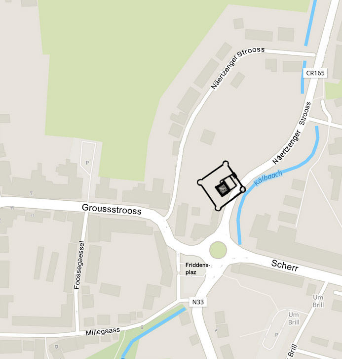 Map of Kayl showing the location of the former castle.